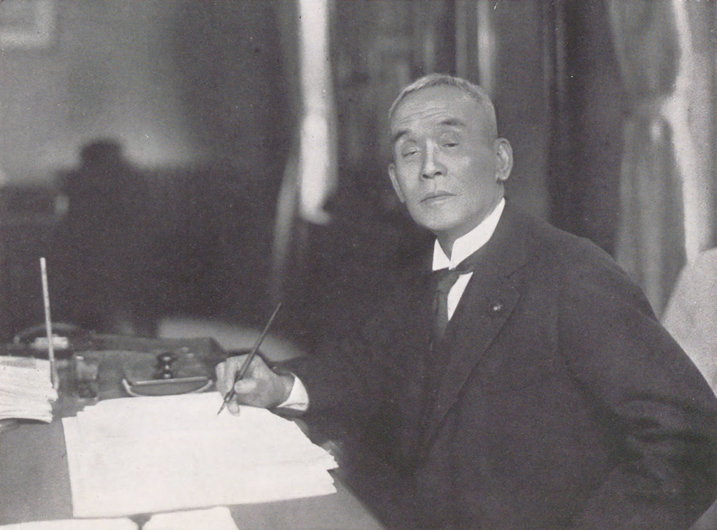 Portrait of Okawa Heizaburo (大川平三郎, 1860 – 1936)